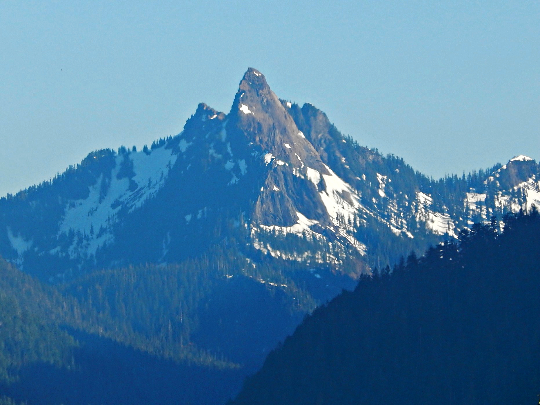 Devils Thumb 5172' seen from Highway 530 in Darrington, WA at sunset